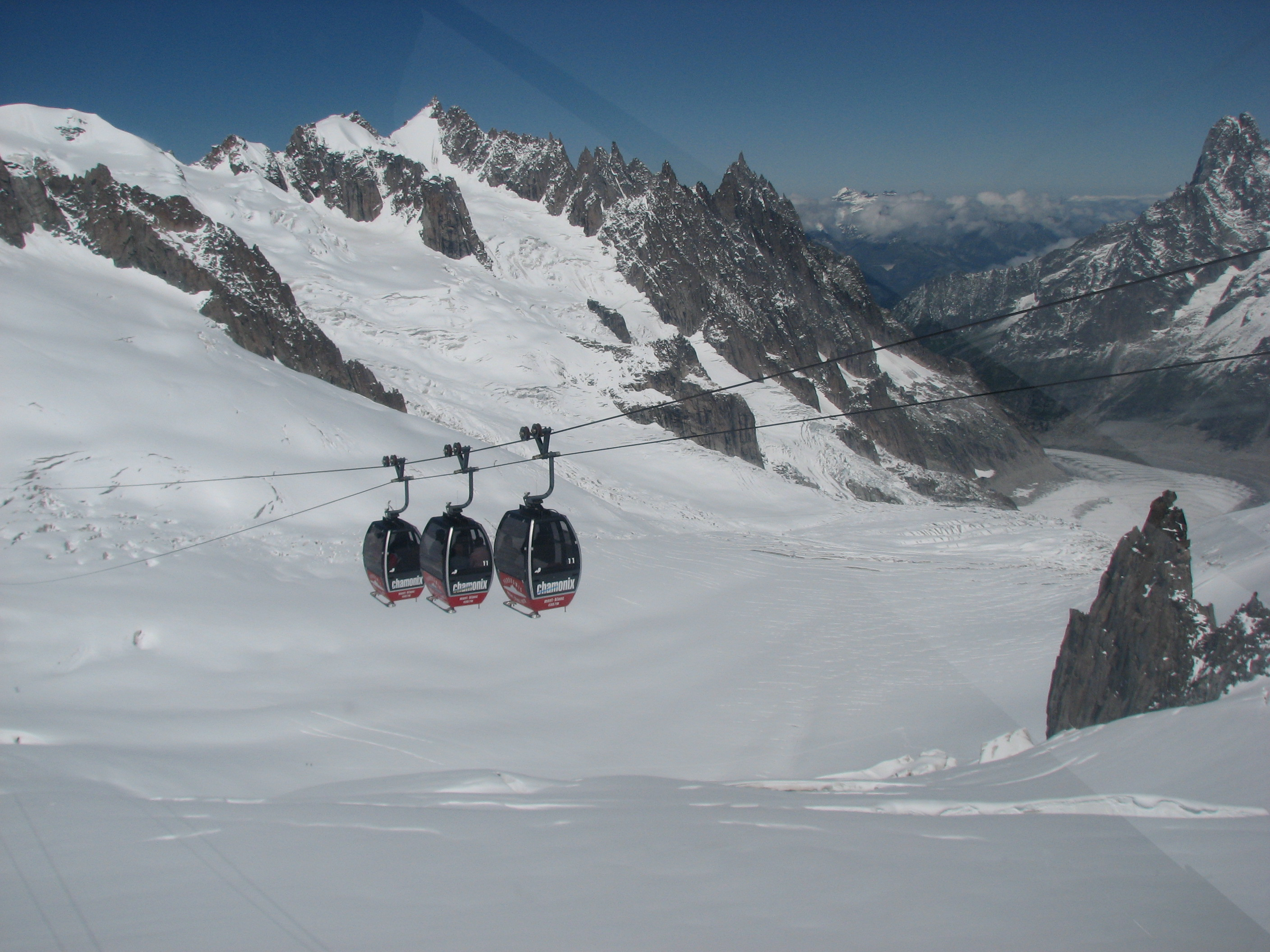 Vallee Blanche Aerial Tramway